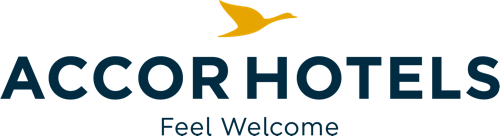 Logo of AccorHotels